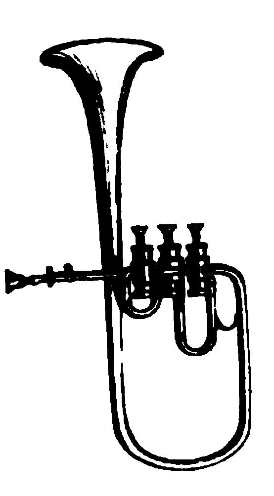 Image of a soprano saxotromba in E-flat